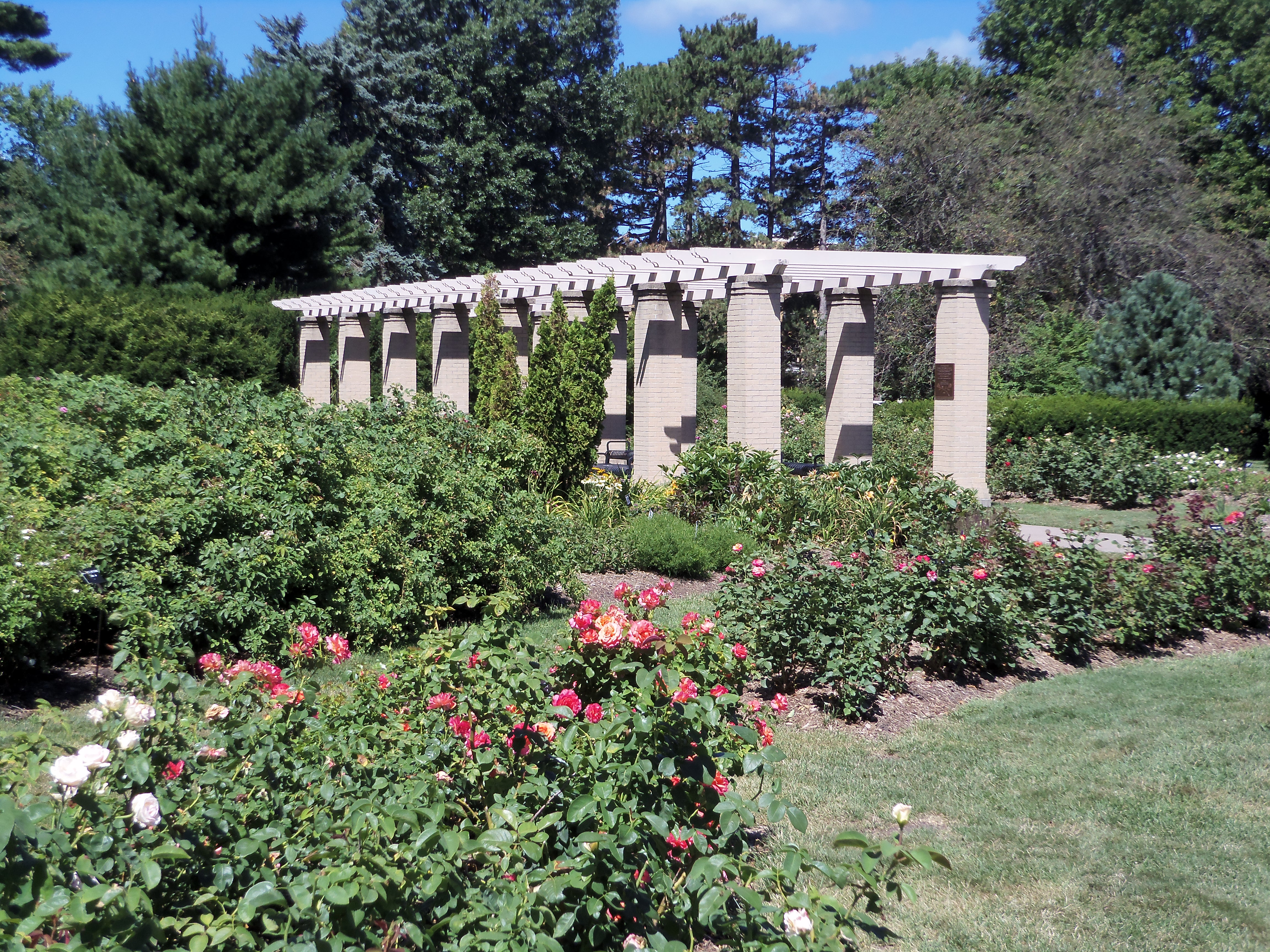 Part of the Rose Garden at Vander Veer Botanical Park in Davenport, Iowa.